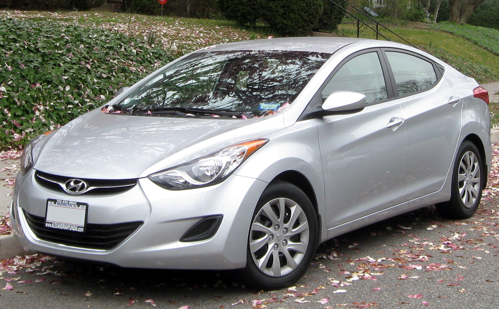 2011-2012 Hyundai Elantra photographed in Washington, D.C., USA.